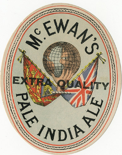 Beer label for McEwan's Pale India Ale